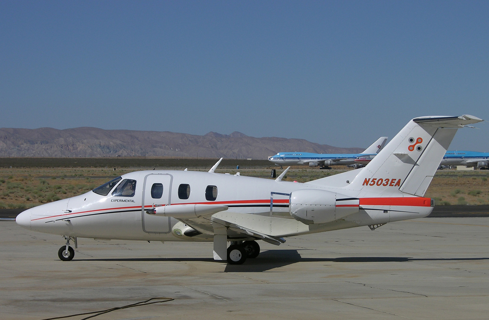 Elipse 500 flight test aircraft, Mojave Airport